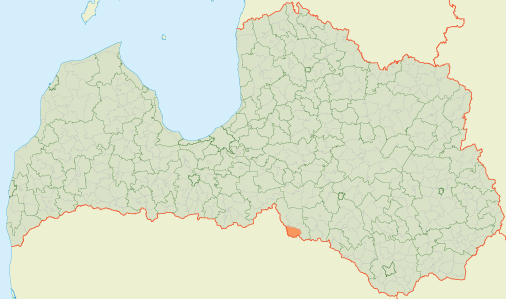 Location of Pilskalne Parish in Nereta Municipality, Latvia